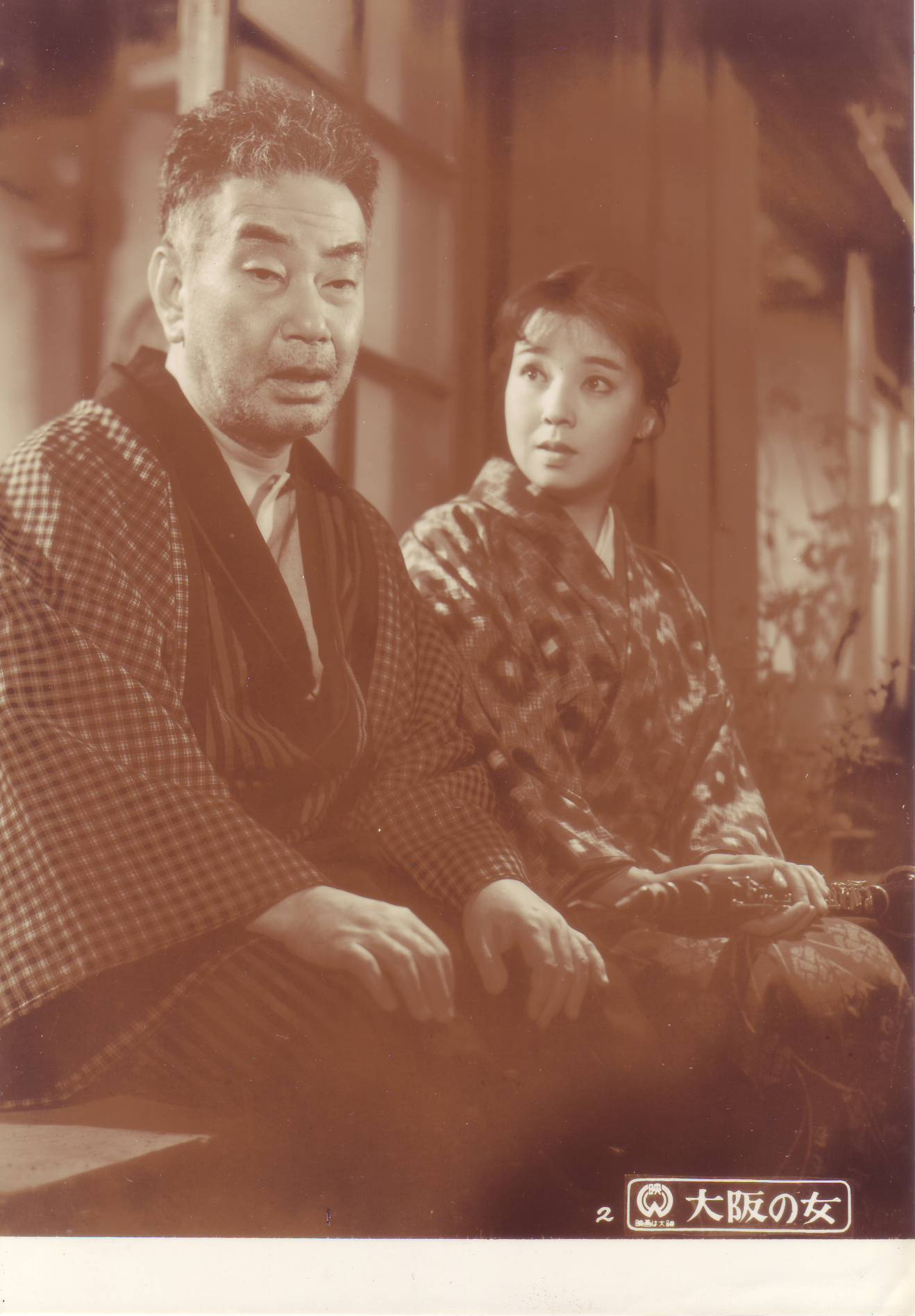 Machiko Kyō and Nakamura Ganjiro II (Kabuki actor). Studio Still of the 1958 Japanese film "Osaka no onna (Woman in Osaka) " (Daiei Film).